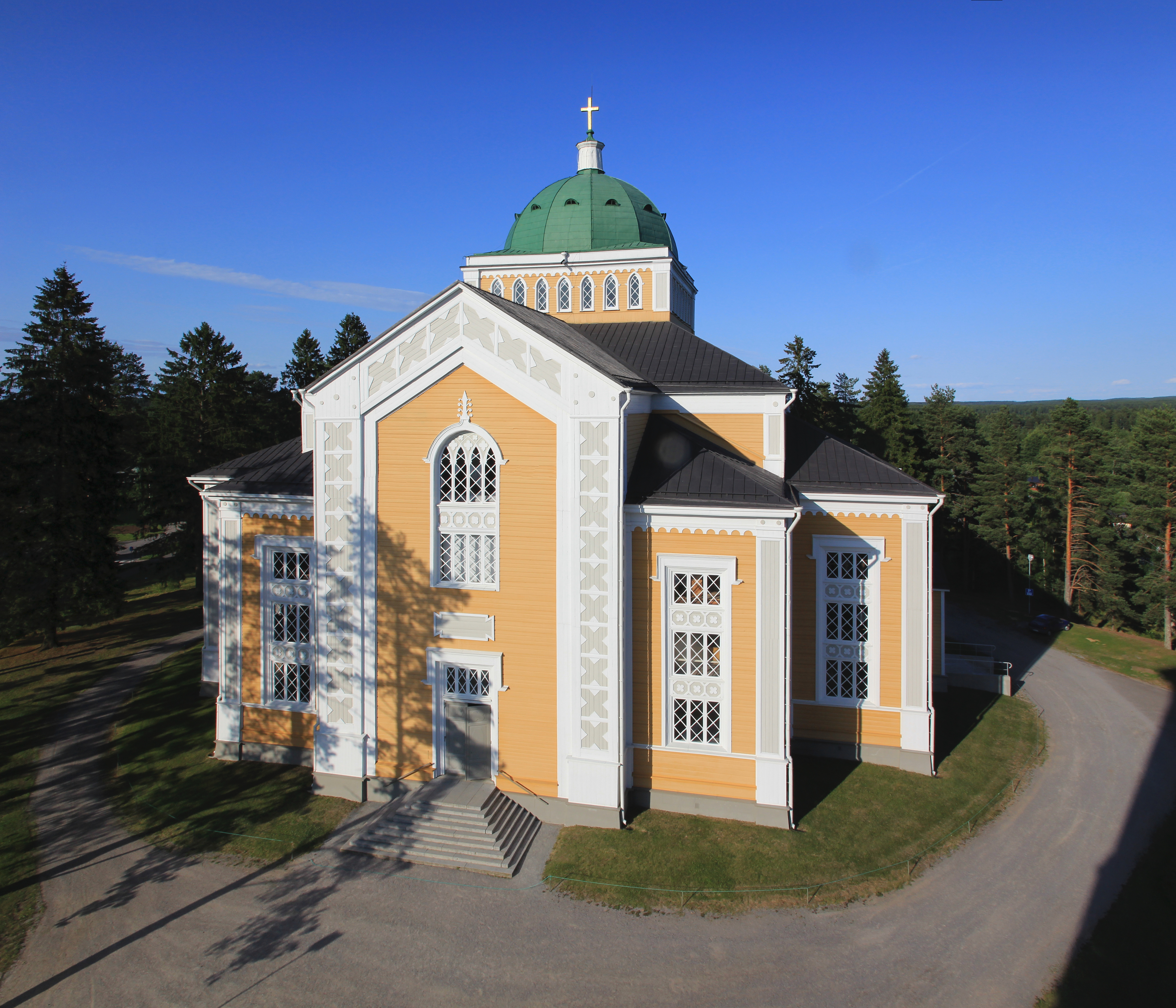 Kerimäki church photographed from the bell tower.